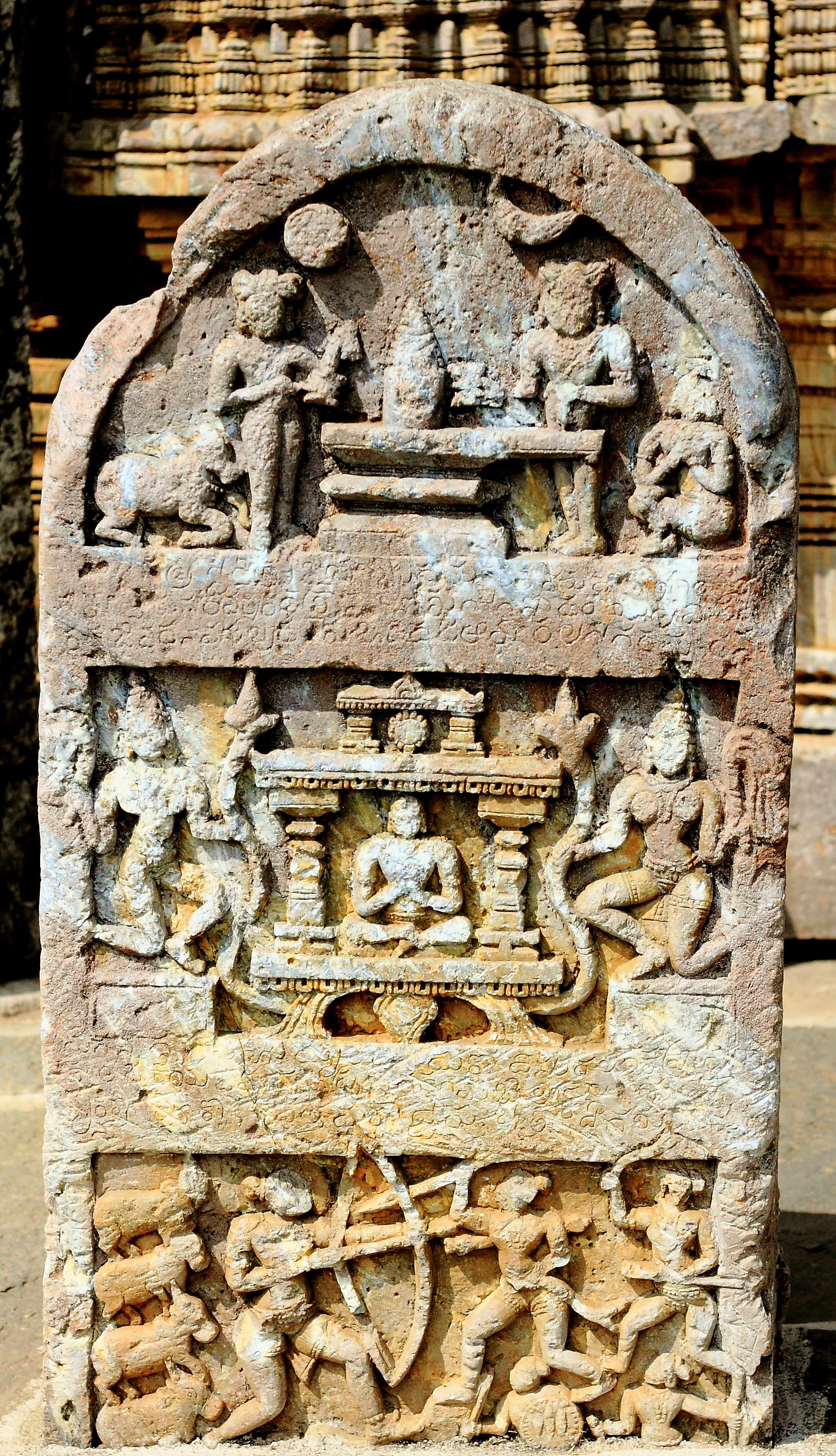 The large stone inscription near the porch is an excellent example of medieval Kannada poetry composed by the famous poet Janna. (ref